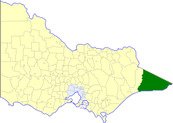 Location of the Shire of Orbost within Victoria.